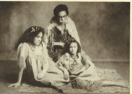 Hiné Taimoa and Rawei with their child, from a 1912 publication.